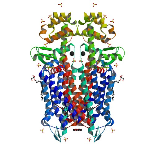 Crystal structure of the mu-opioid receptor bound to a morphinan antagonist